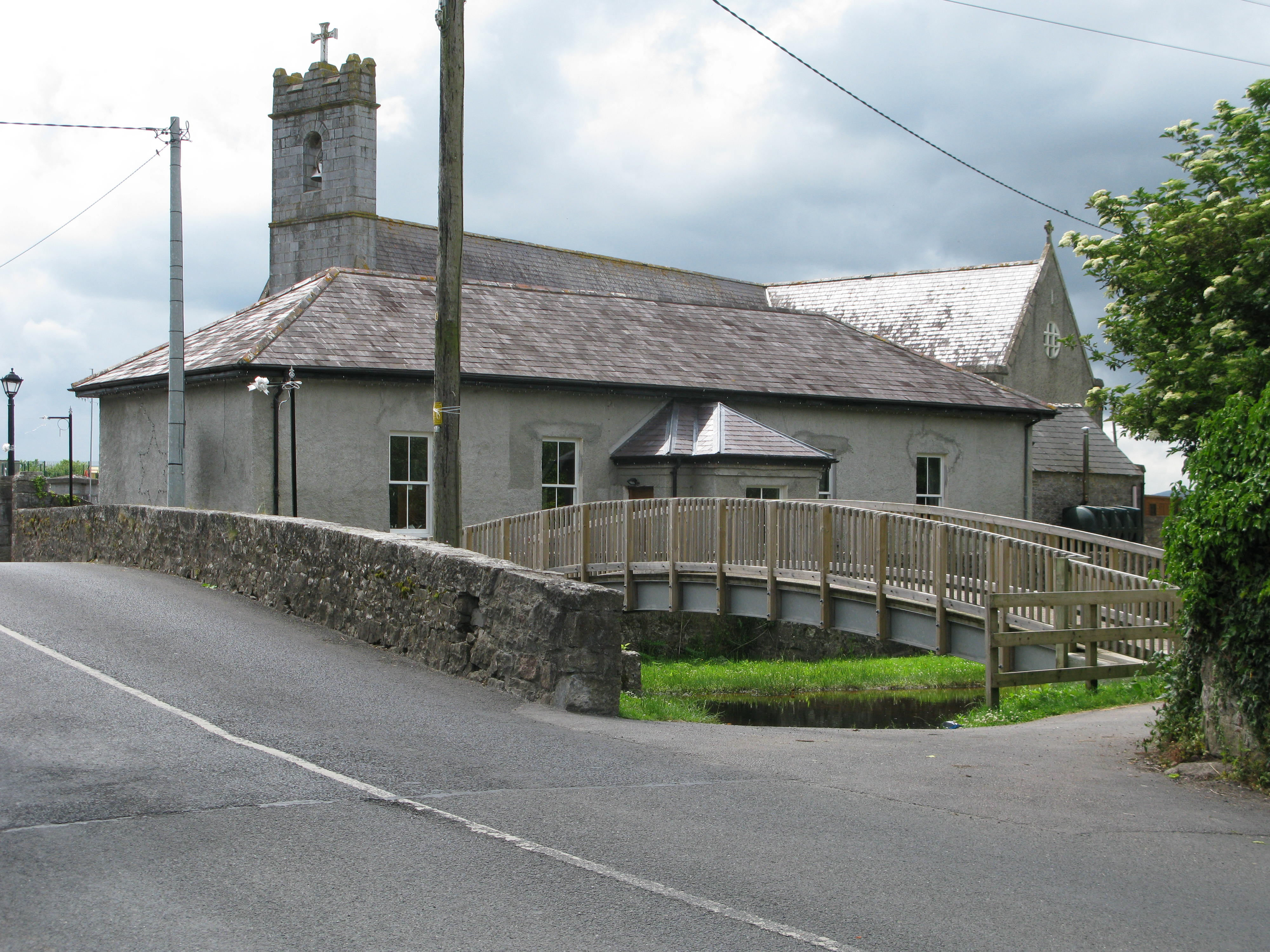 Old National school, Ballylooby, located near village bridge and Catholic parish church.